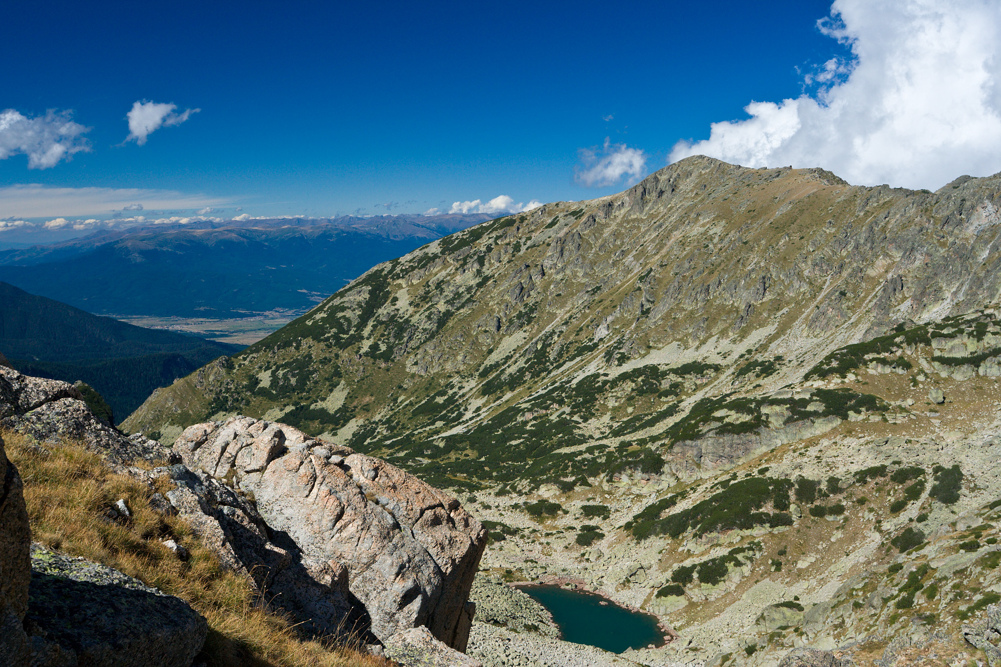 Kaimakchal peak, Pirin mntn, Bulgaria